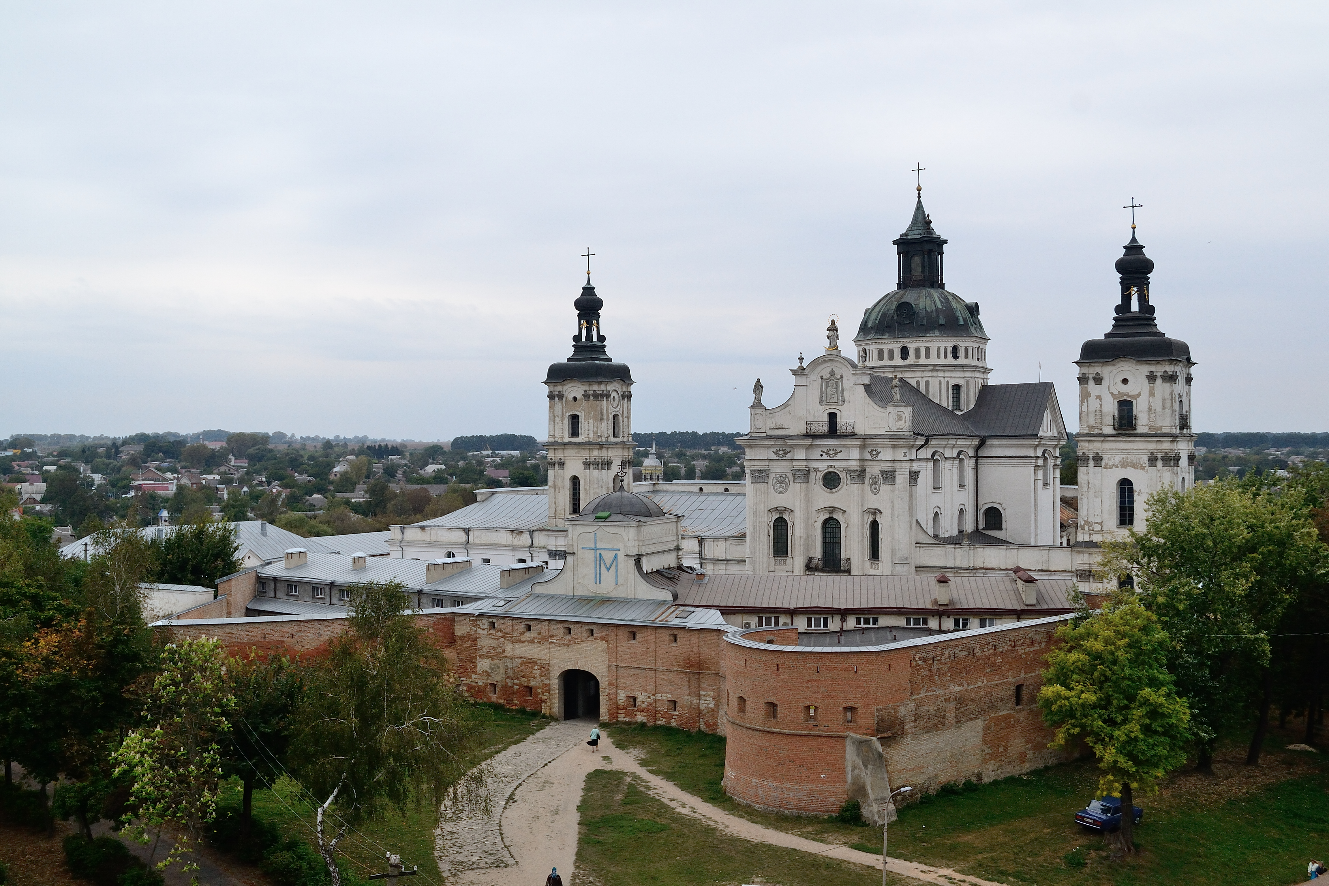 Discalced Carmelite Monastery, Berdychiv